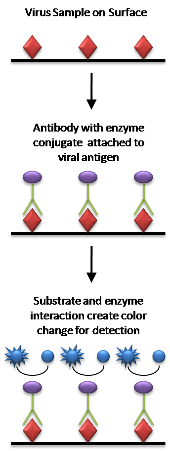 Direct ELISA diagram using a viral antigen